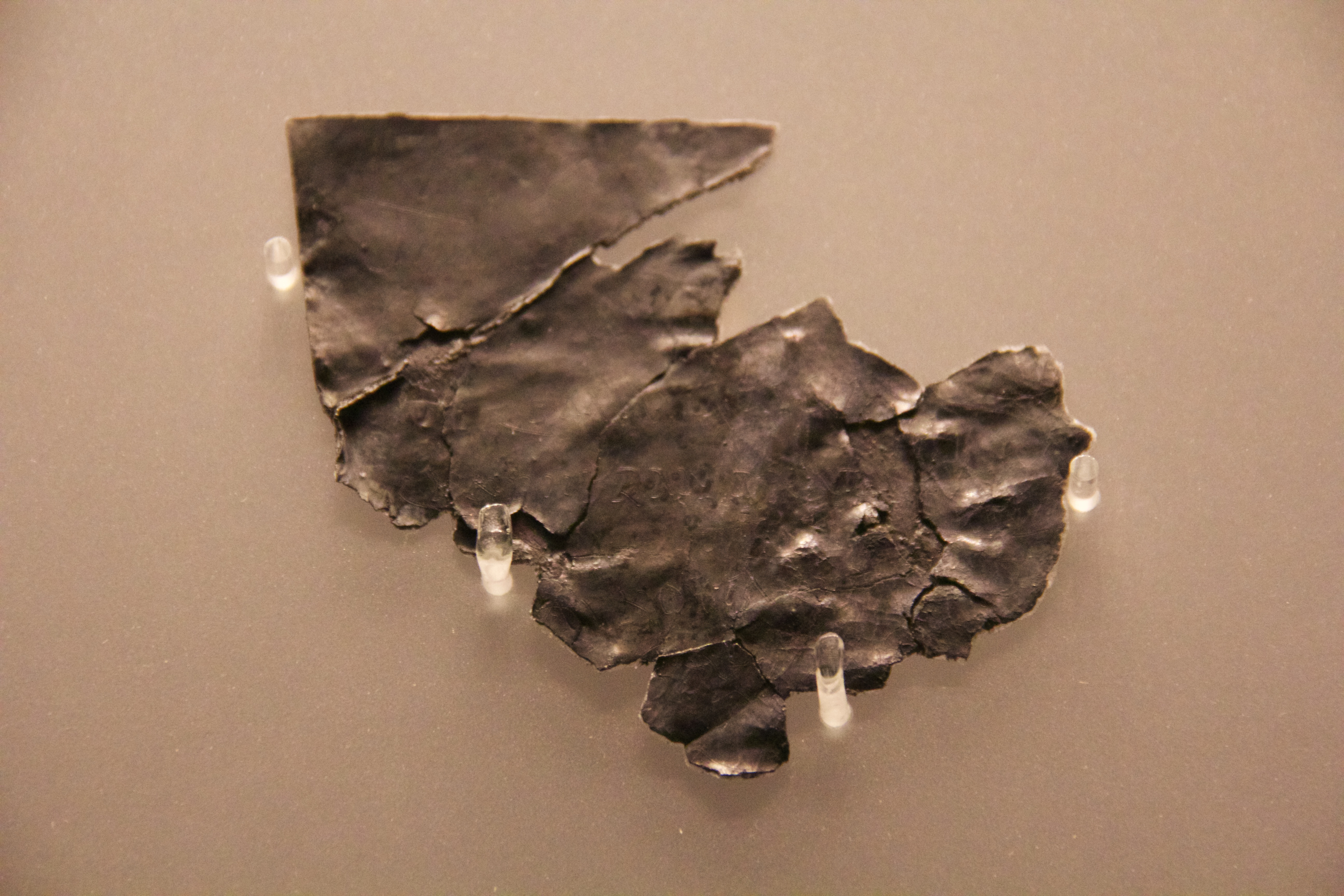 "The Roman curse tablets from Bath Britain's earliest prayers. These tablets are inscribed on the UNESCO Memory of the World register of significant documentary heritage. They are the only documents from Roman Britain on that list. A text in British Celtic. These are the only words in British Celtic known to survive anywhere. The letters are from the Latin alphabet, but cannot be translated." From the Temple Courtyard. Roman baths, Bath, UK